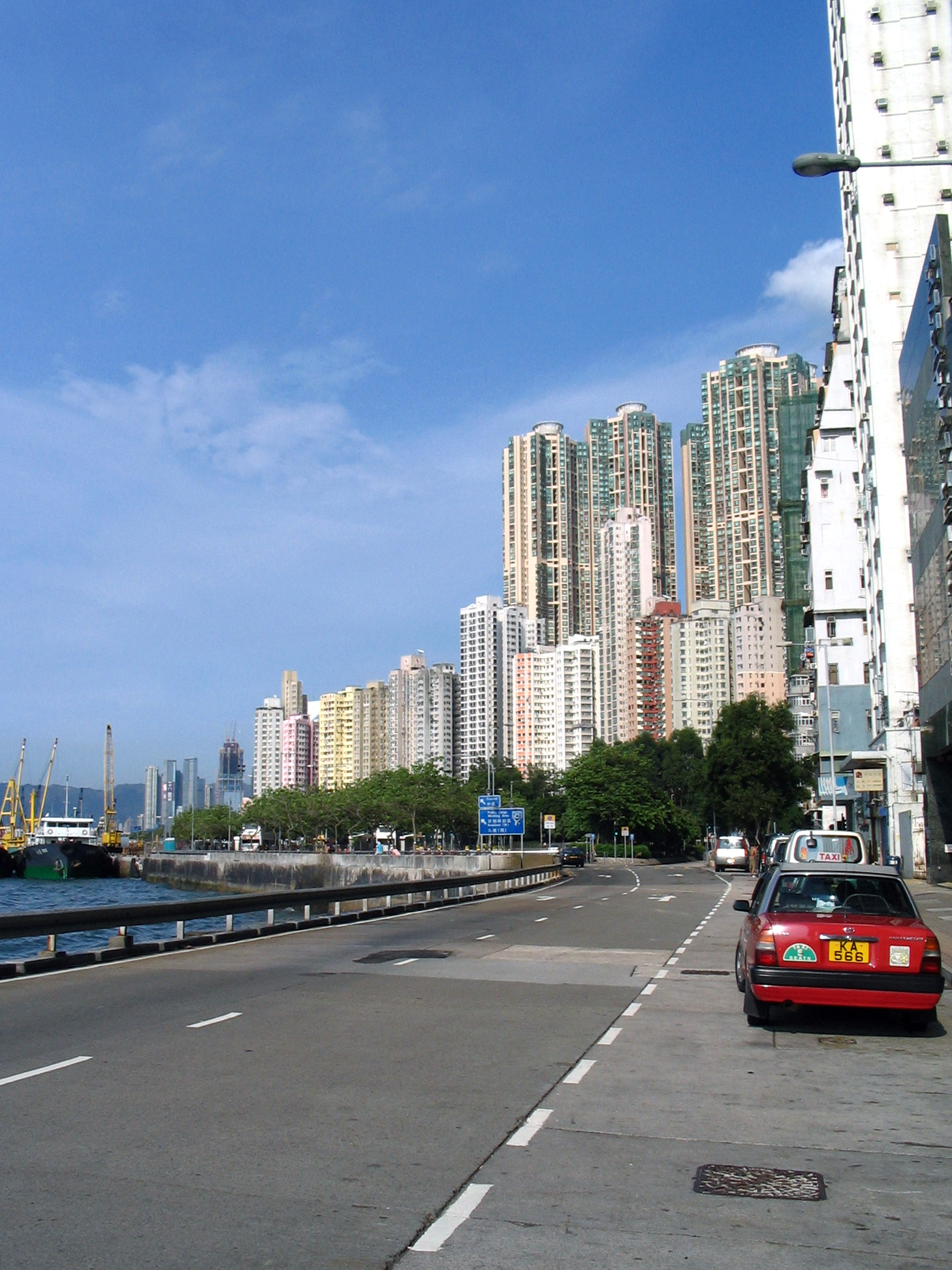 Photo of New Praya, Kennedy Town